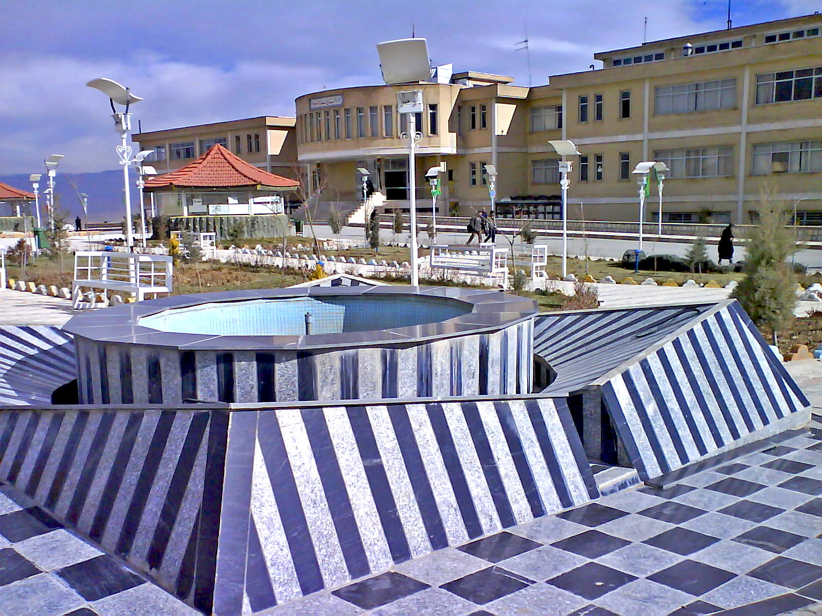 Educational building of Azad University of Borjuerd